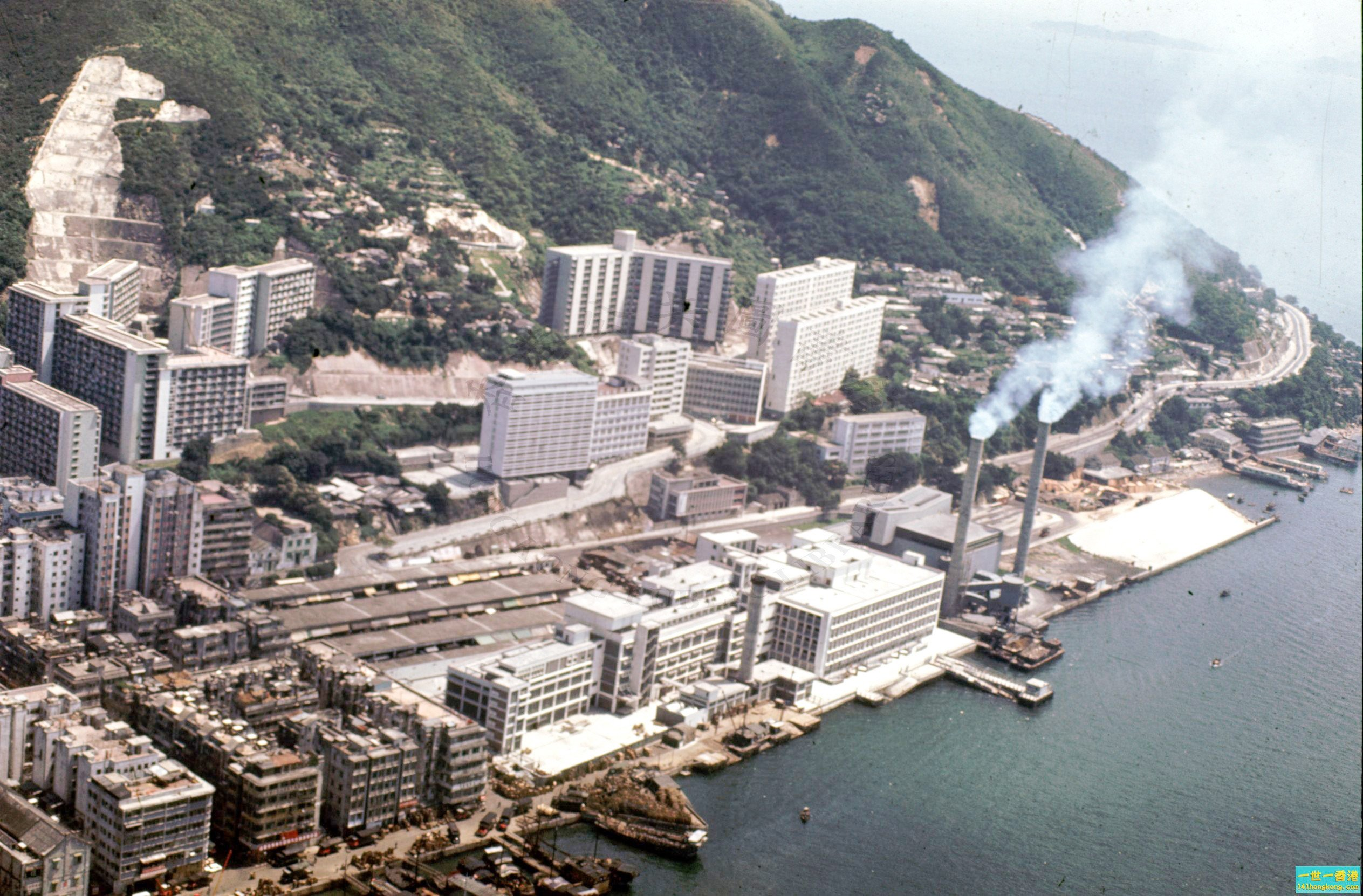 Kennedy Town, Hong Kong